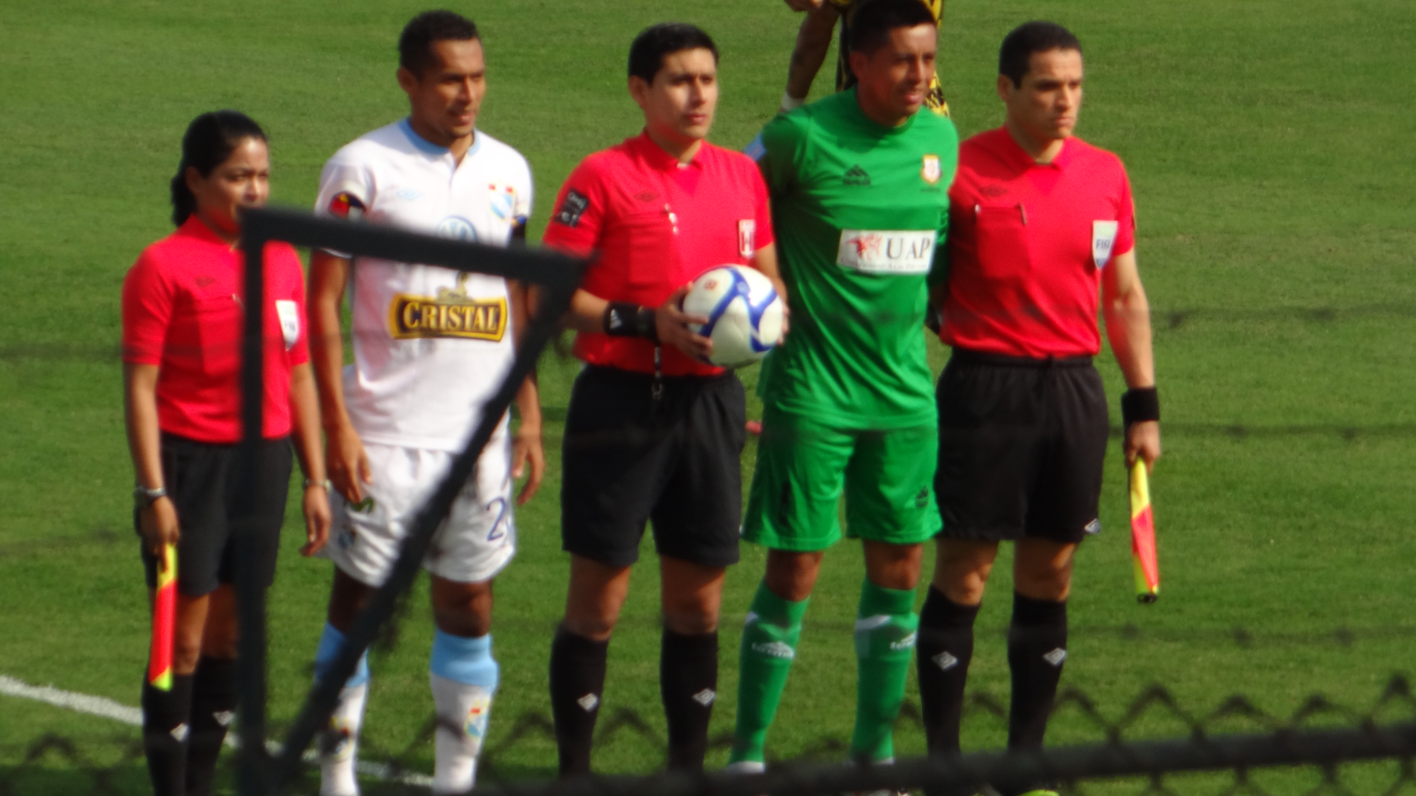 match between Sporting Cristal and Cobresol FBC during 2012 Torneo Descentralizado